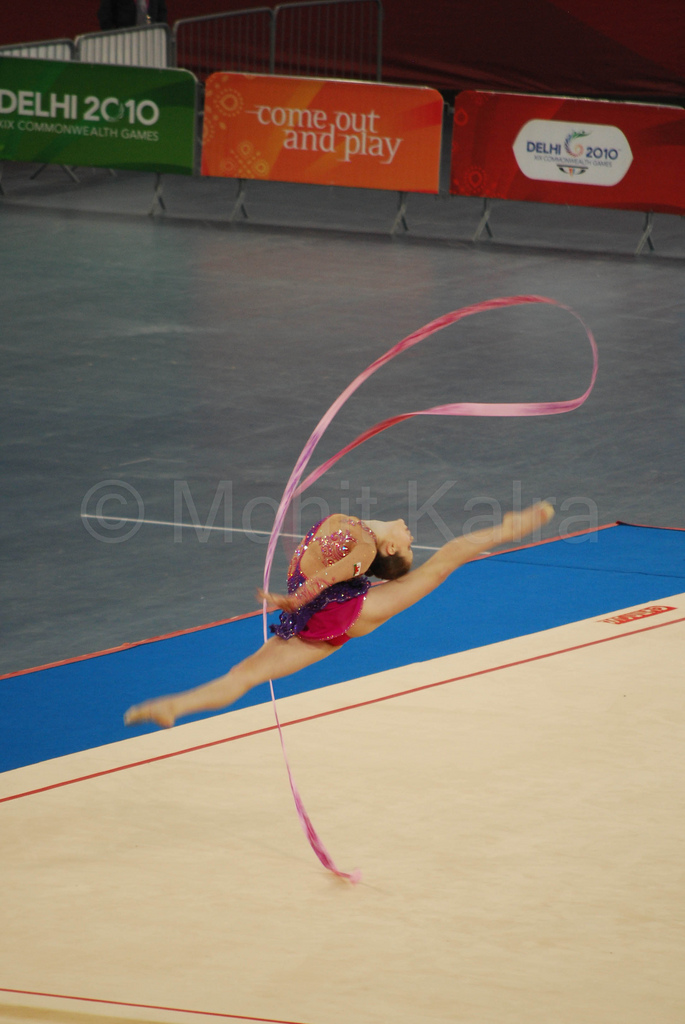 Francesca Jones a Welsh rhythmic gymnast, completing her routine during 2010 Commonwealth Games in Delhi.